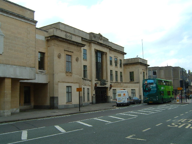 Crown and County Court, St Aldate's Street, Oxford, seen from the southeast. Built as a showroom for Morris Motors.